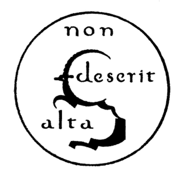 Motto and publisher sign of Czech publishing house of Ladislav Kuncíř